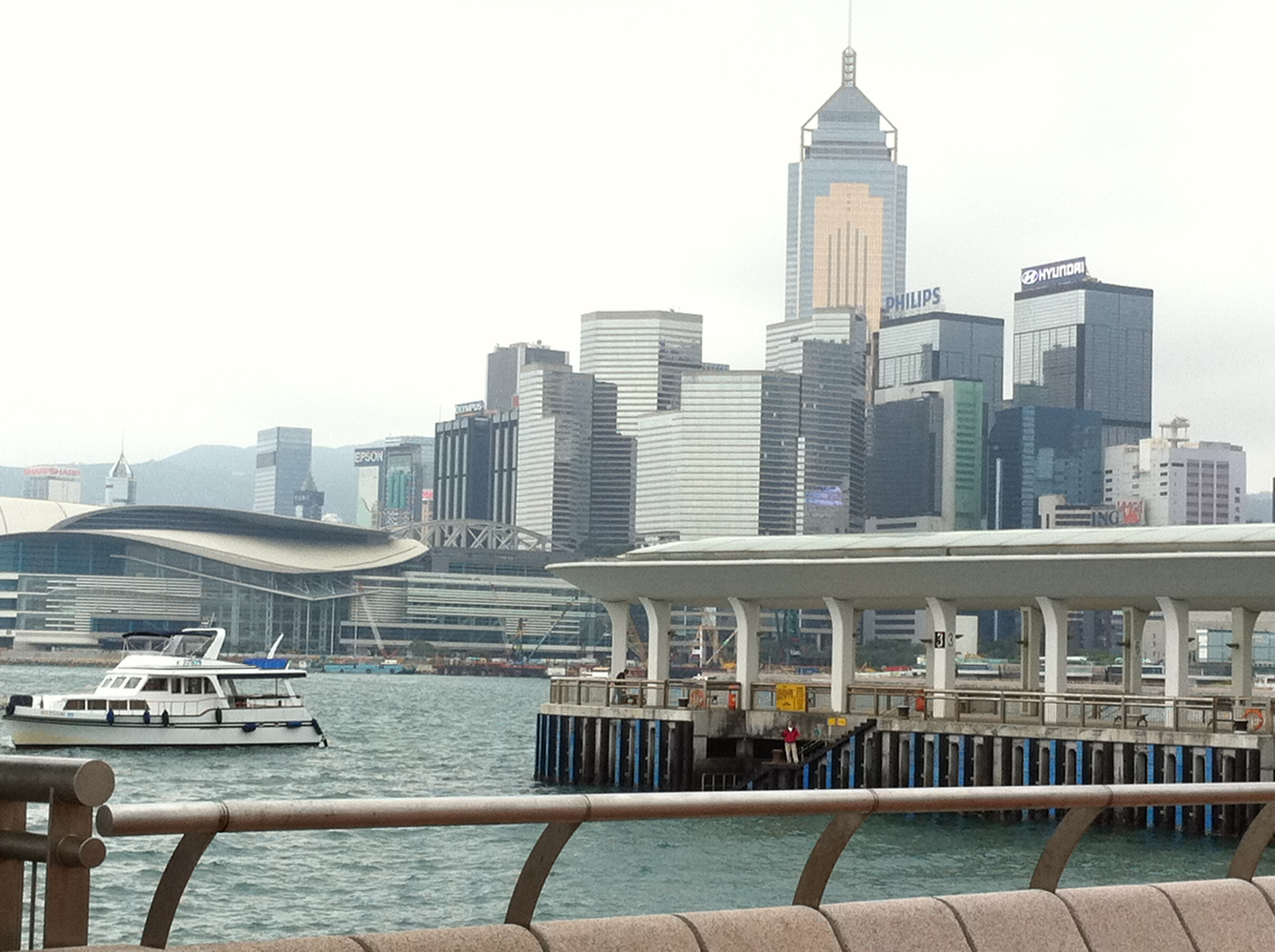 View from the Central to Admiralty Waterfront Promenade & public piers